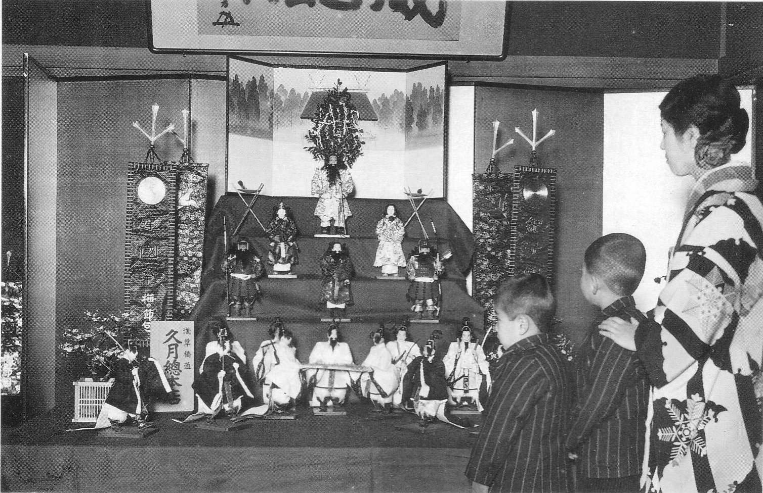 Doll of "Ume no Sekku" that Satoshi Akao we were devised around 1933.